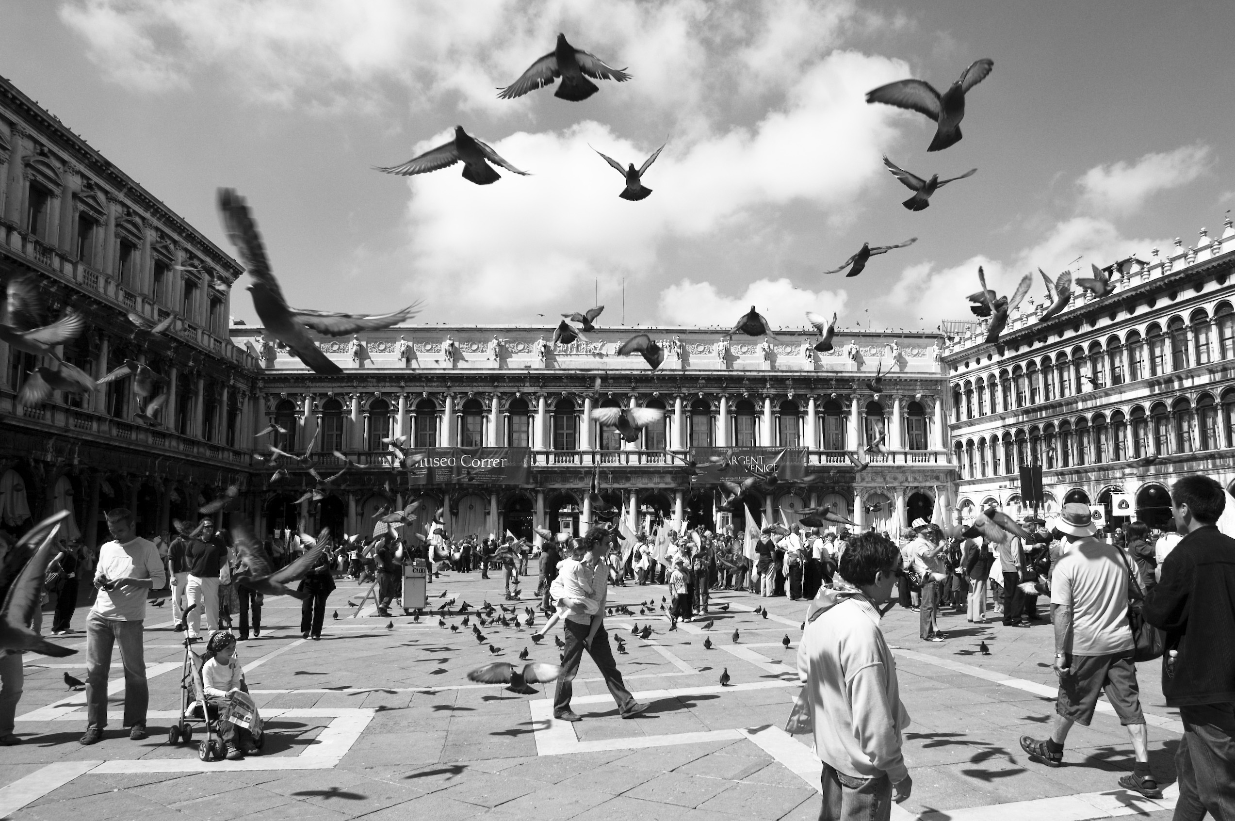 The piazza San Marco and its pigeons.